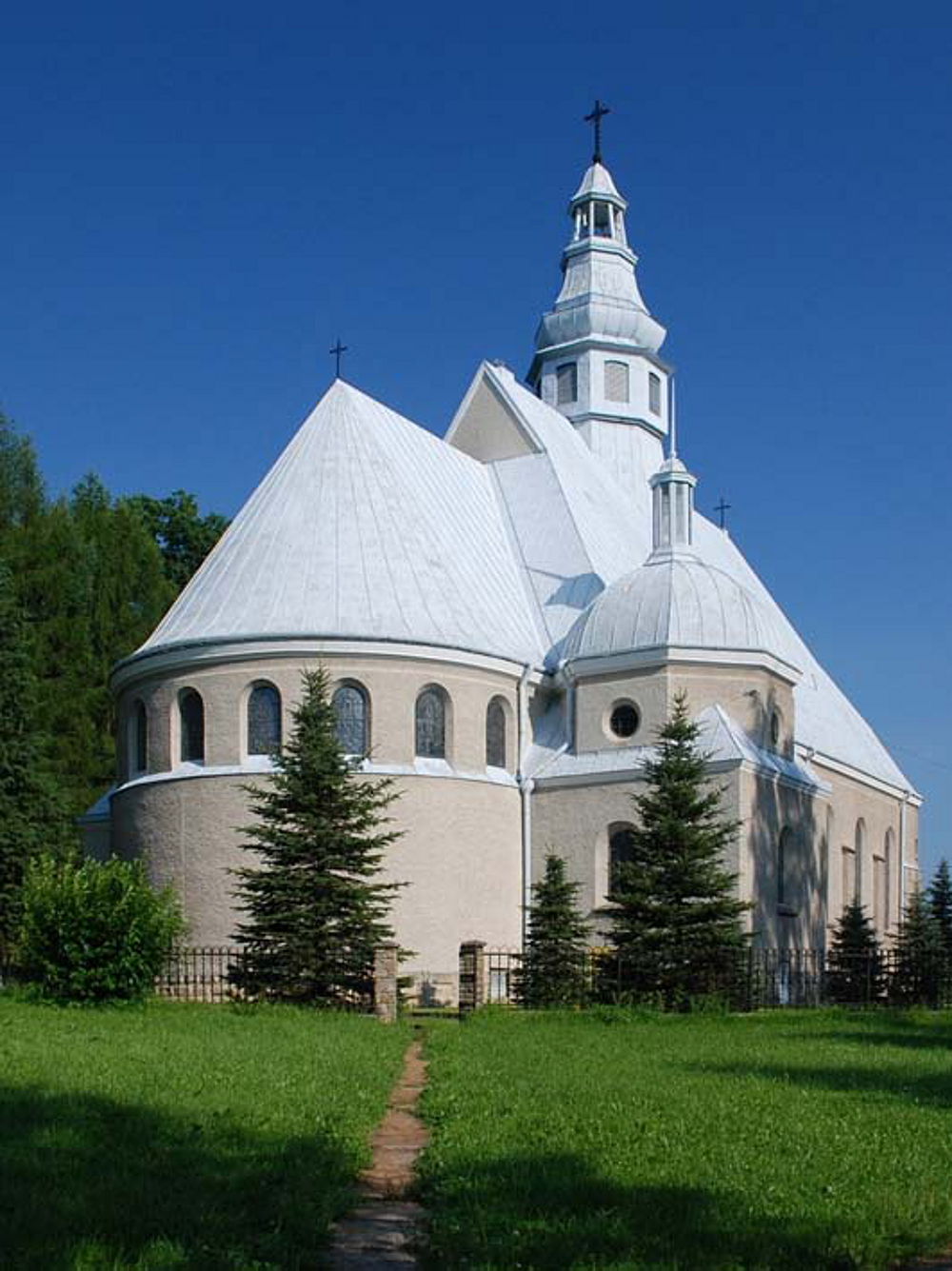 Parish Church in Baczal Dolny - Poland